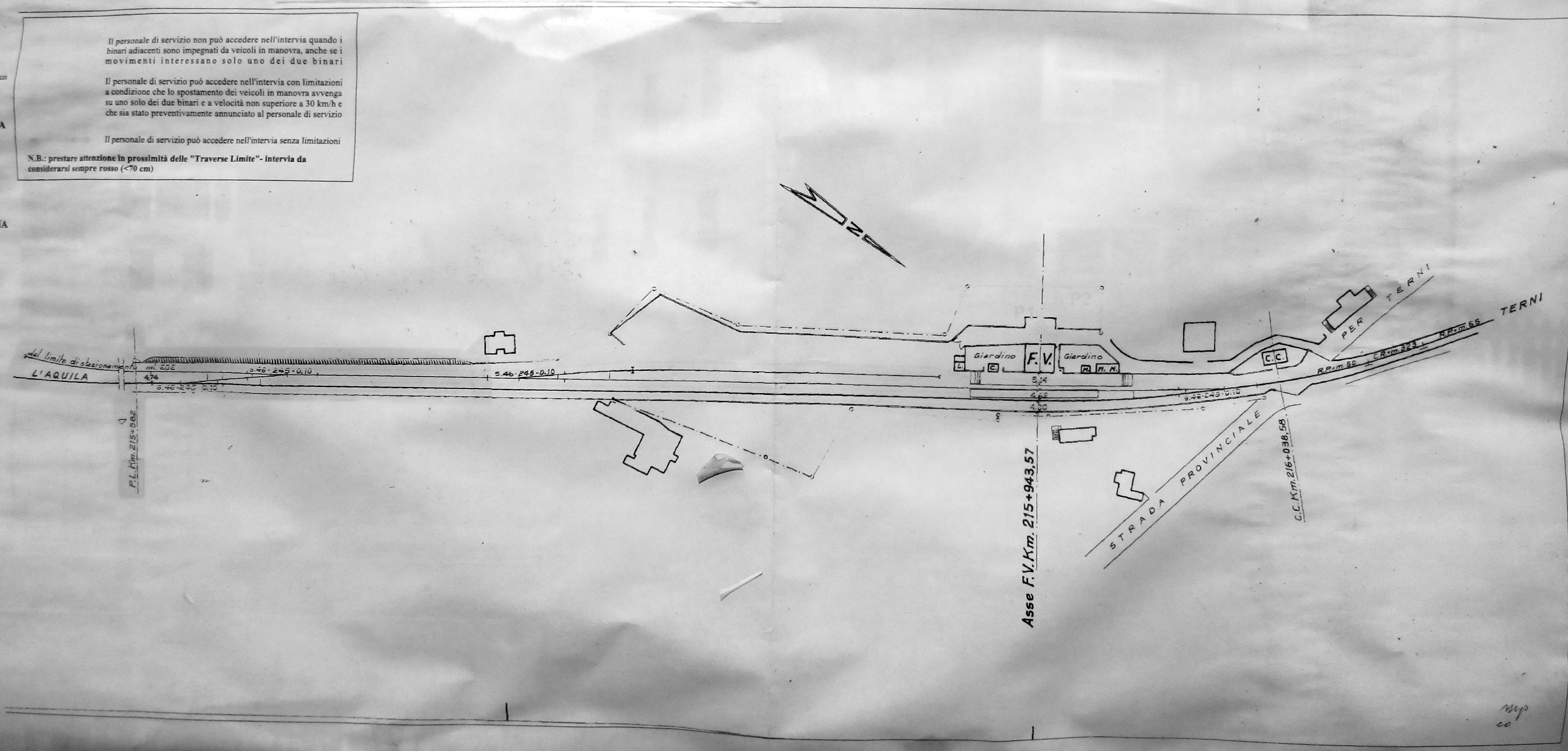 Plan of Marmore train station (province of Terni, Umbria, Italy), on the Terni-Rieti-L'Aquila-Sulmona line.